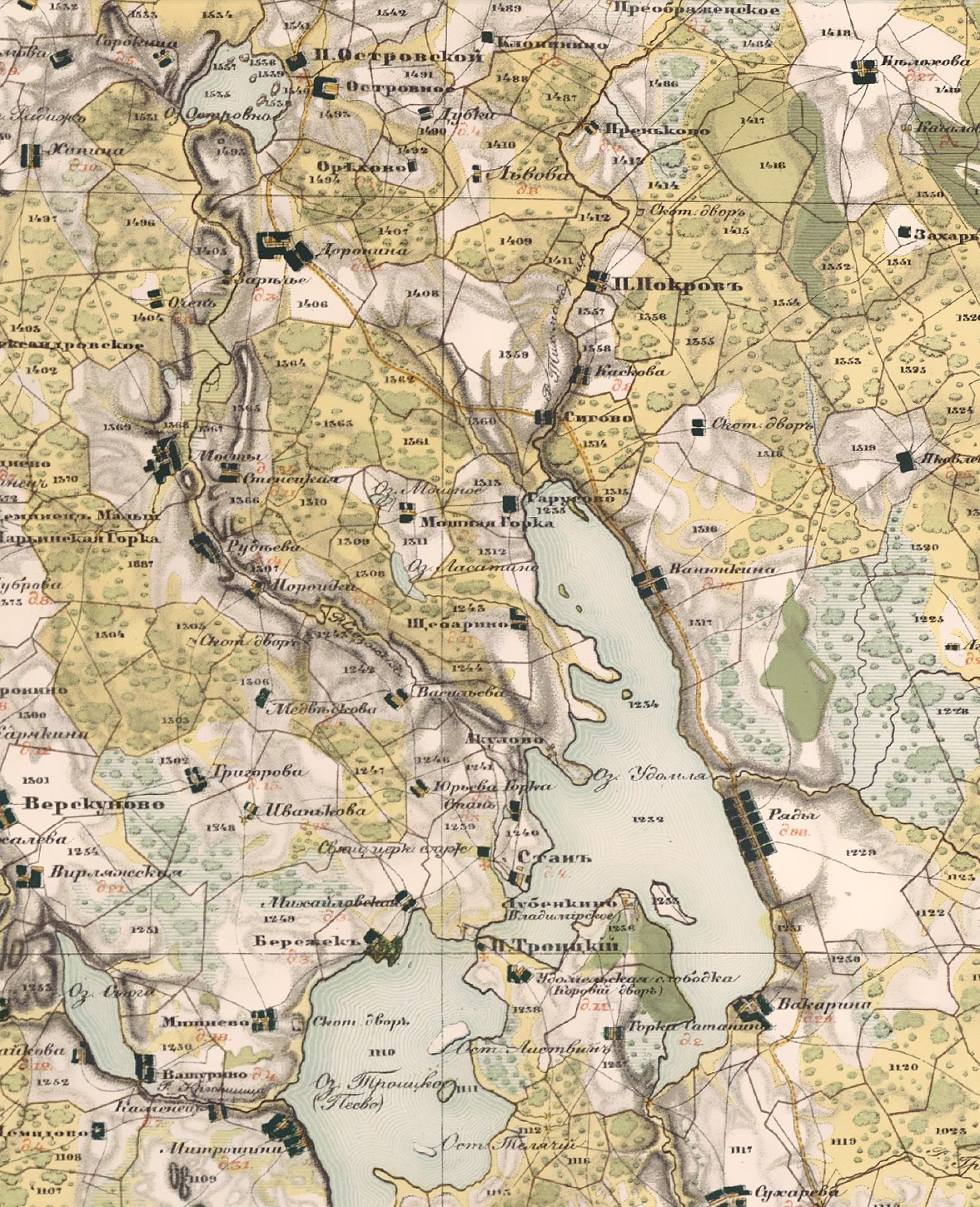 Lakes Udomlya and Ostrovno, extracted from Tver Governorate topographic map (published in 1853)